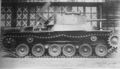 Side view of Type 97 GS tank fitted with rocket launchers